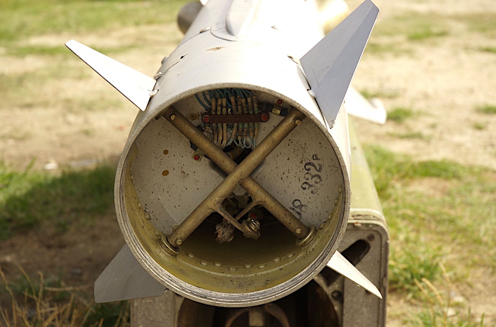 K-5M (AA-1 Alkali) Soviet Air-to-Air Missile